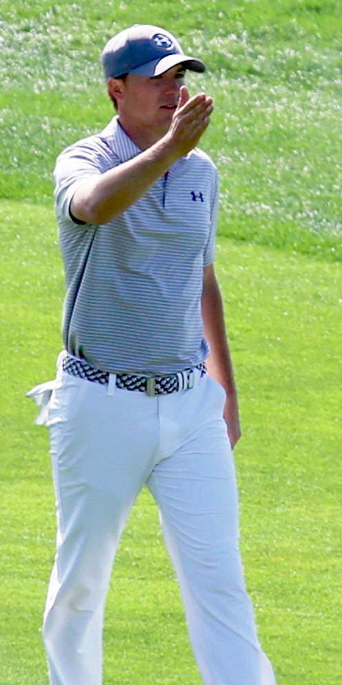 Spieth and Owen at the AT&T Championship, February 2015